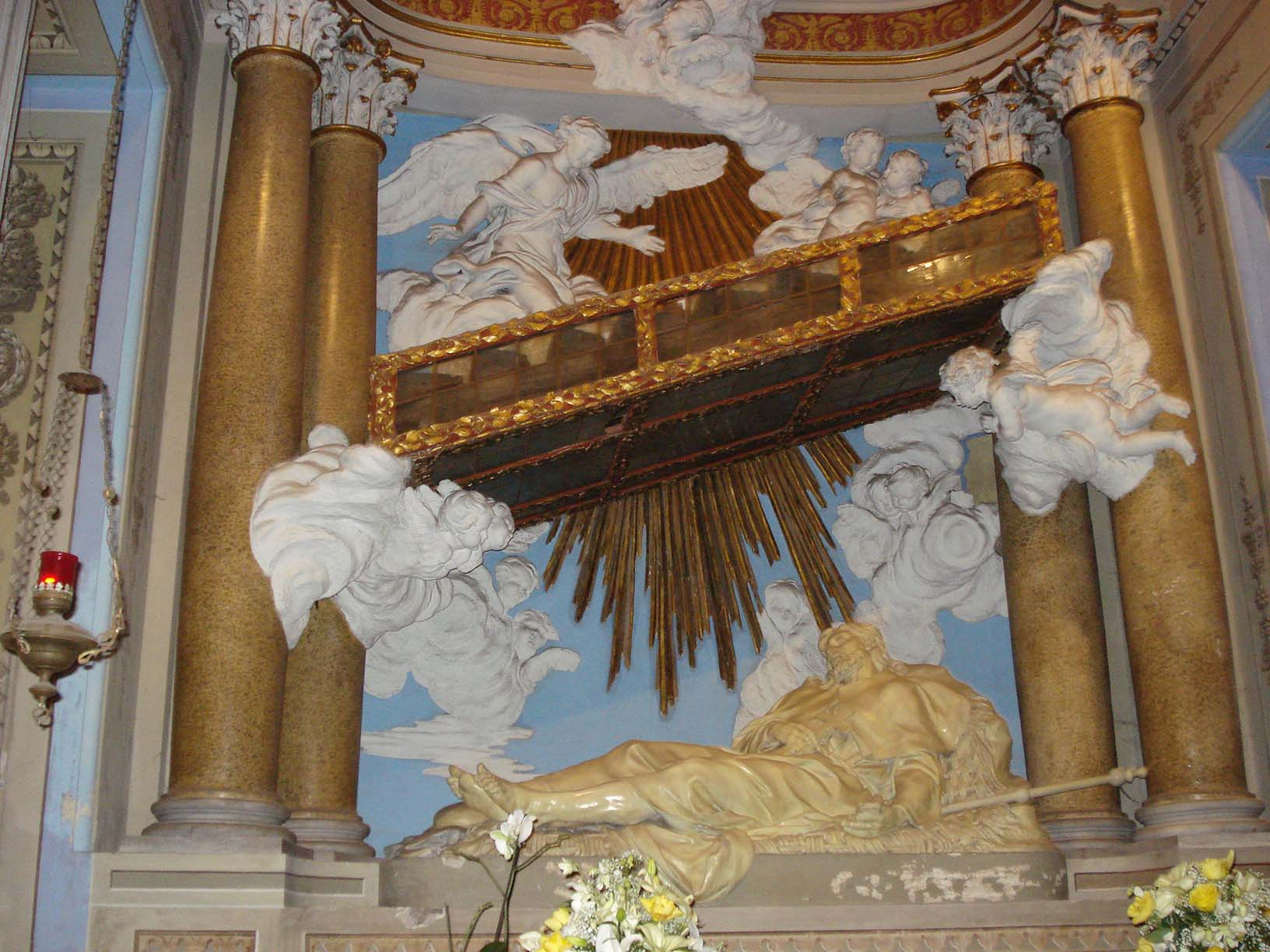 St Alexius Chapel